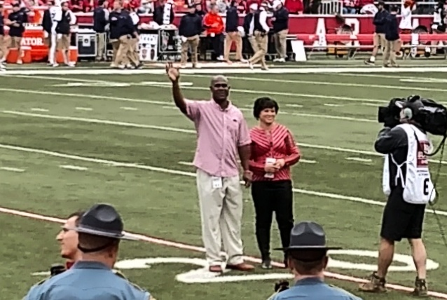 Madre Hill waving at Razorback Stadium.